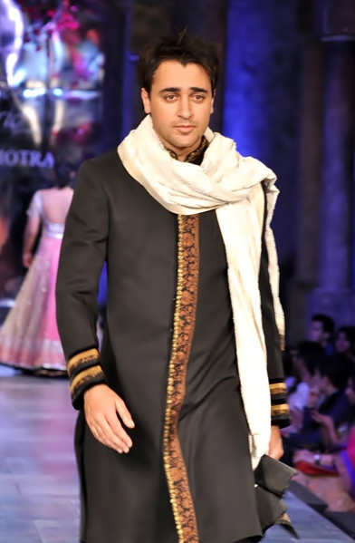 Imran Khan walking the ramp at the Mijwan Fashion Show in 2012